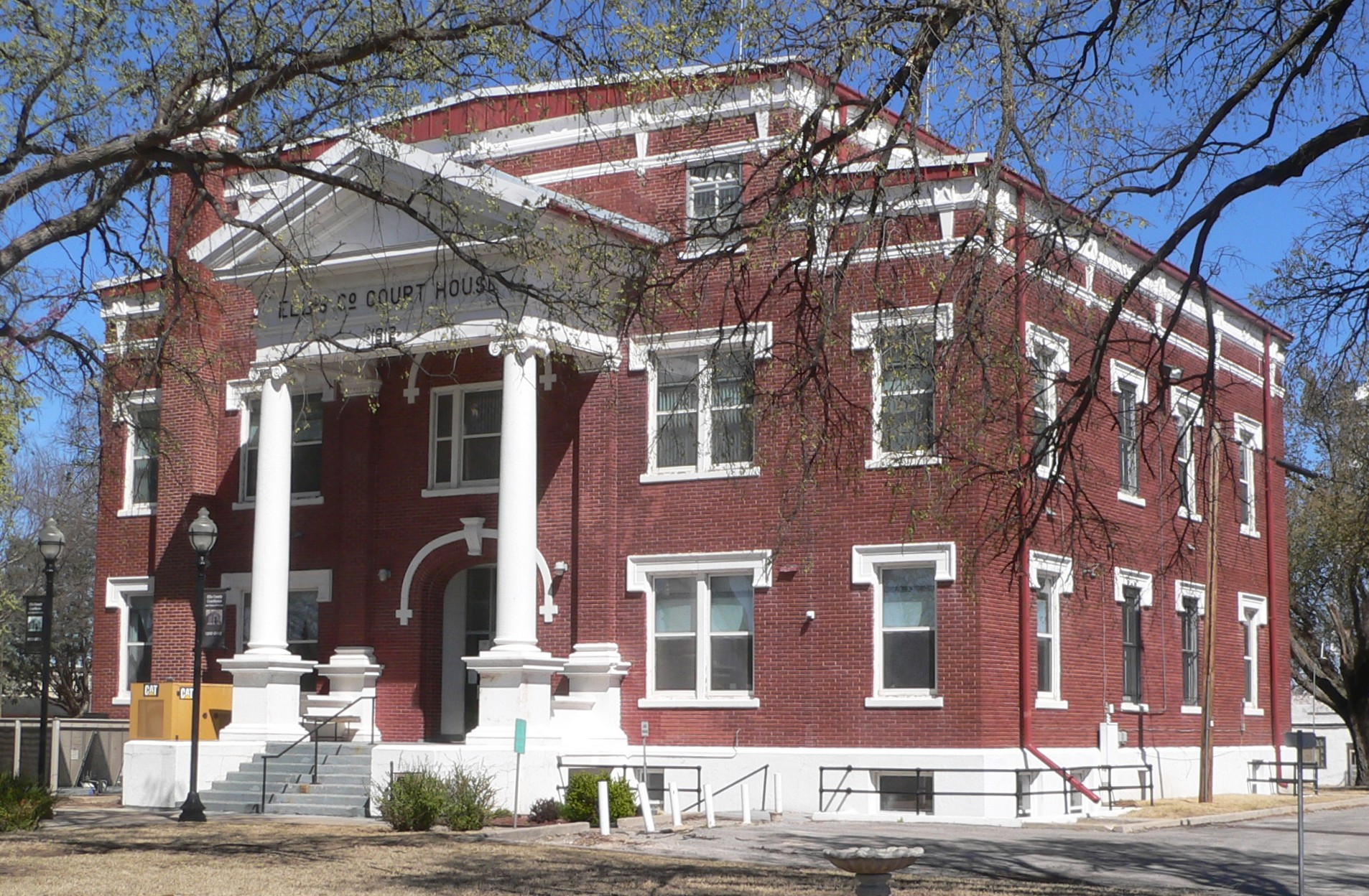 Ellis County courthouse in Arnett, Oklahoma; seen from the southwest.